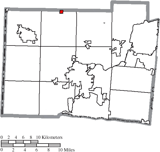 Map of the municipal and township boundaries of Butler County, Ohio, United States, as of the 2000 census, with the location of the village of Somerville highlighted. Township borders are shown only in unincorporated areas in order to differentiate incorporated and unincorporated areas more clearly.